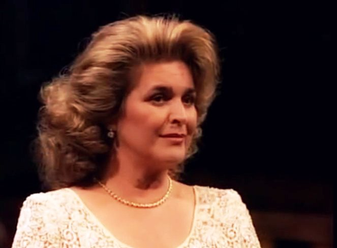 Czech soprano Gabriela Beňačková in 2002 in Prague